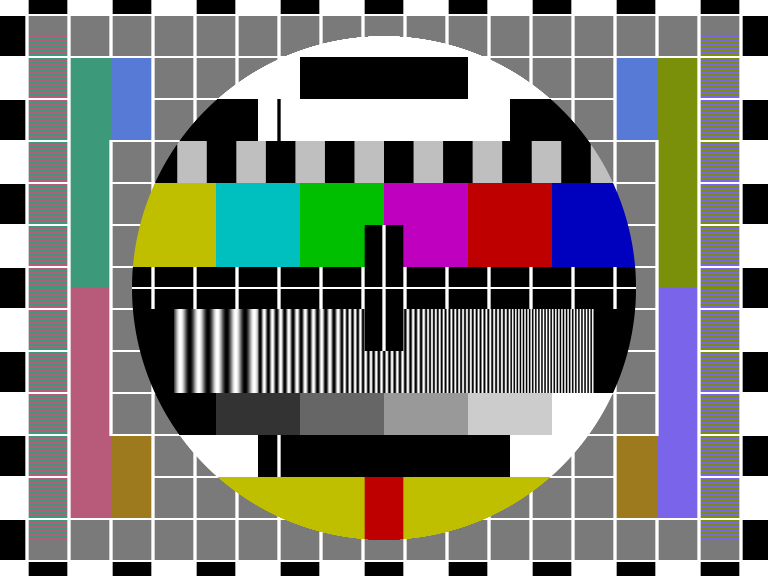 A test pattern of the type produced by the PM5544 generator.